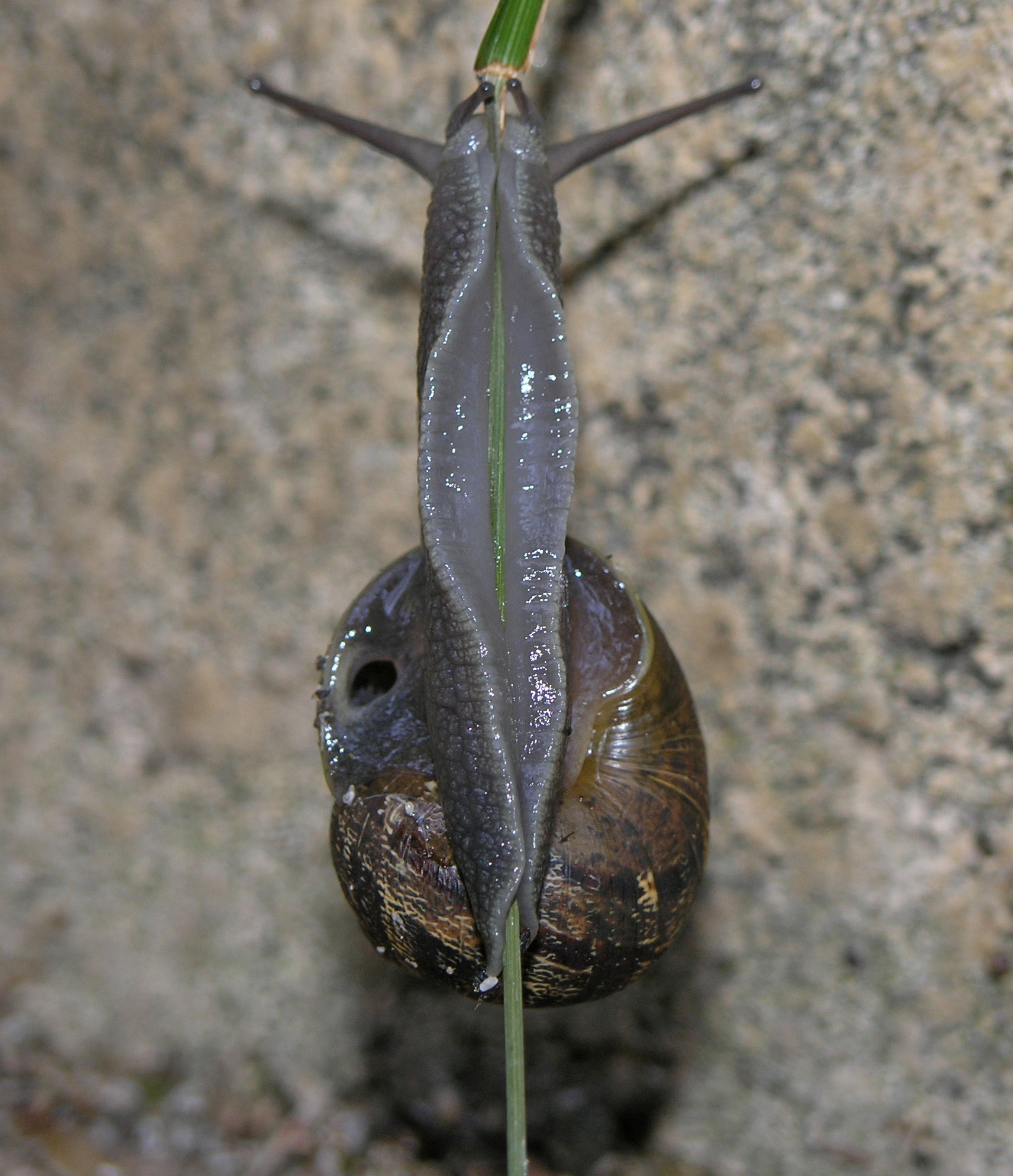 Snail climbing a bladed of grass. Helix aspersa, determined 04 June 2011 by Francisco Welter-Schultes Insufficient DOF, JPEG artifacts